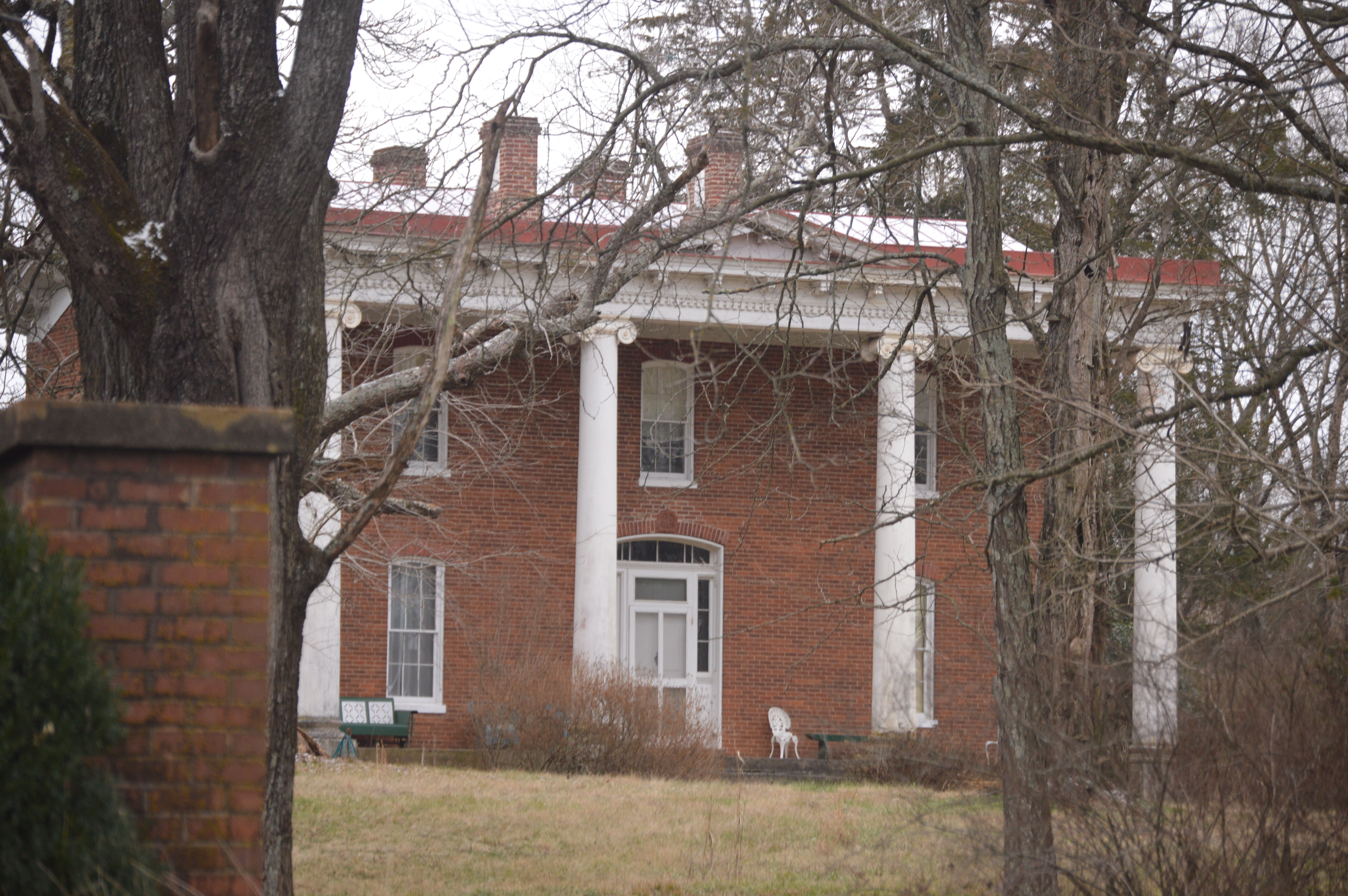 Front of Lessland, located at 4256 Bushy Mountain Road southeast of Mitchells in Orange County, Virginia, United States. The estate is listed on the National Register of Historic Places.